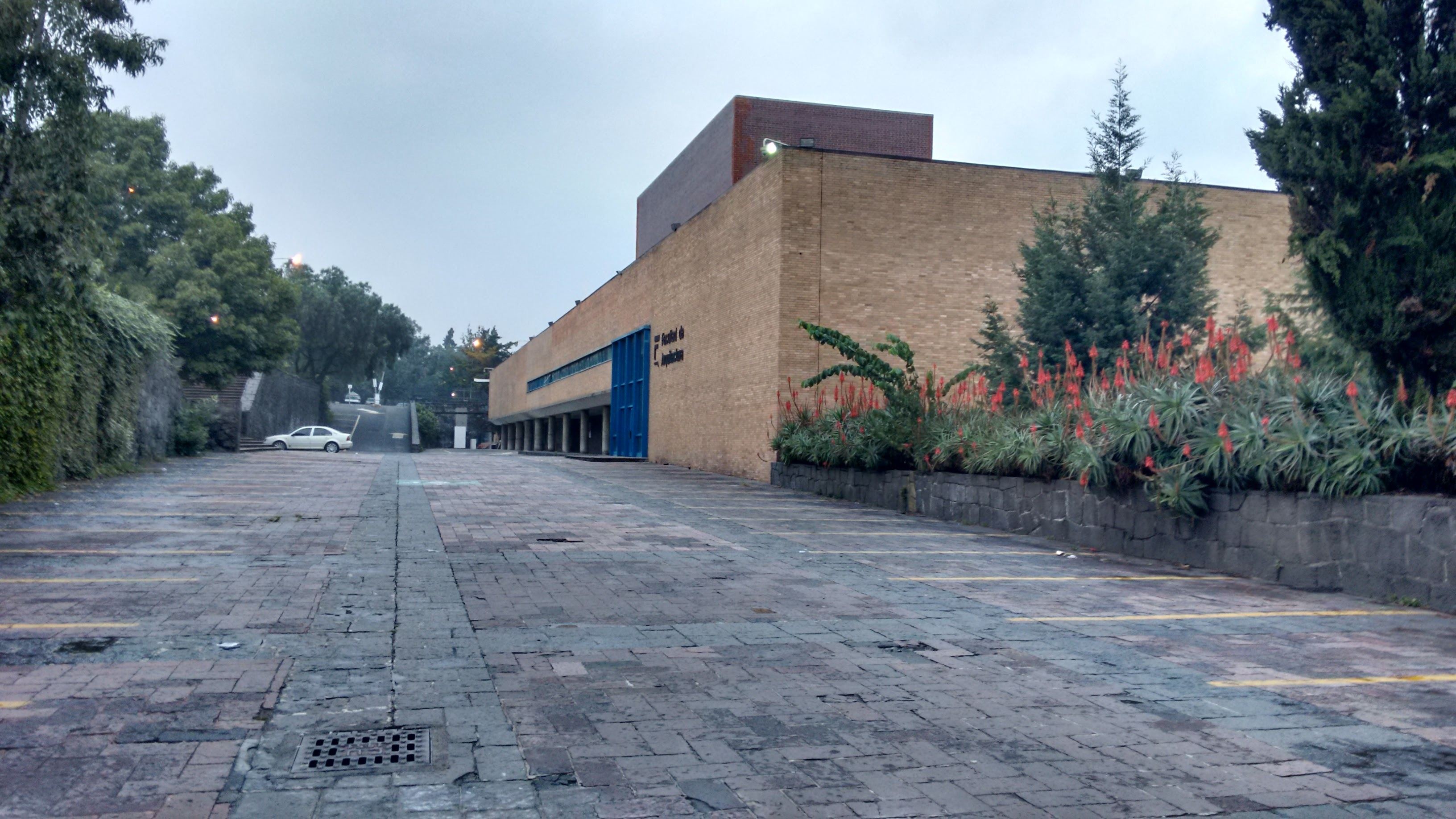 UNAM school of Architecture main building, south façade. Designed by Mexican architect José Villagrán. 1952.